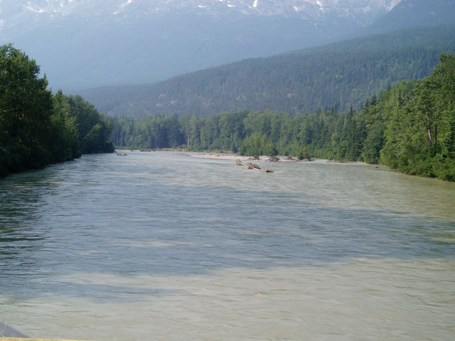 Downstream view of Taiya River near Skagway, Alaska during open water season, 2002.